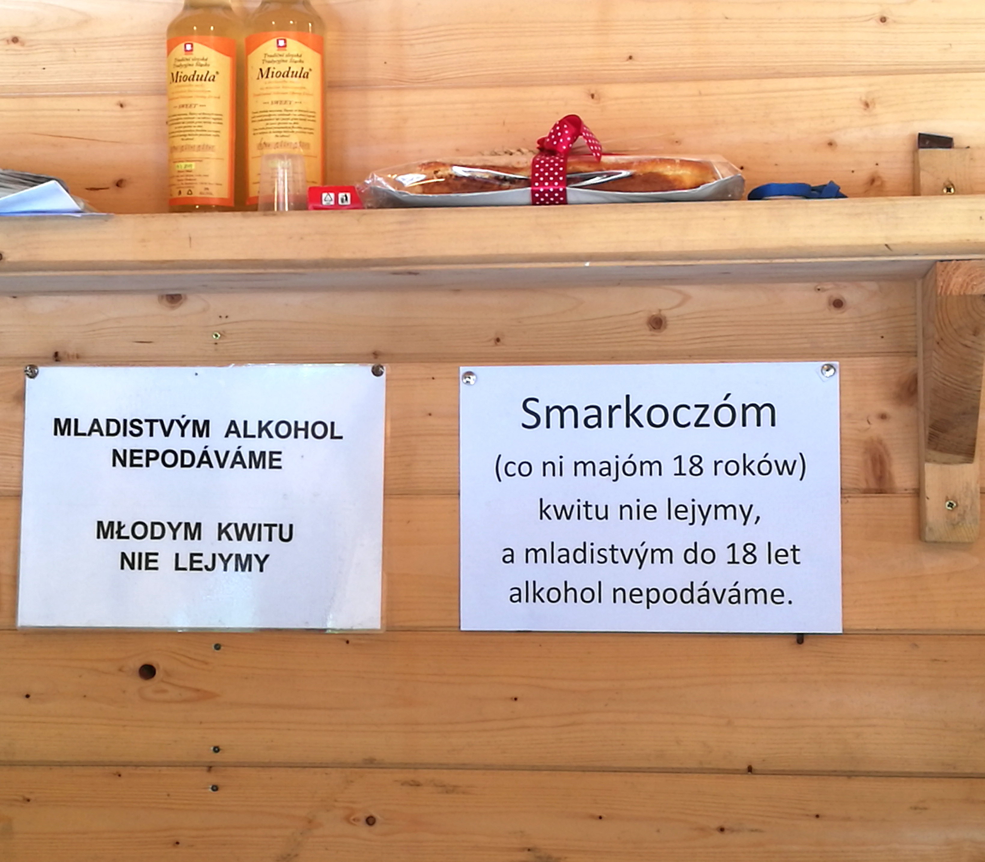 Alcohol sale age limitation sign in Cieszyn Silesian dialect and Czech language at the Gorolski Święto 2019